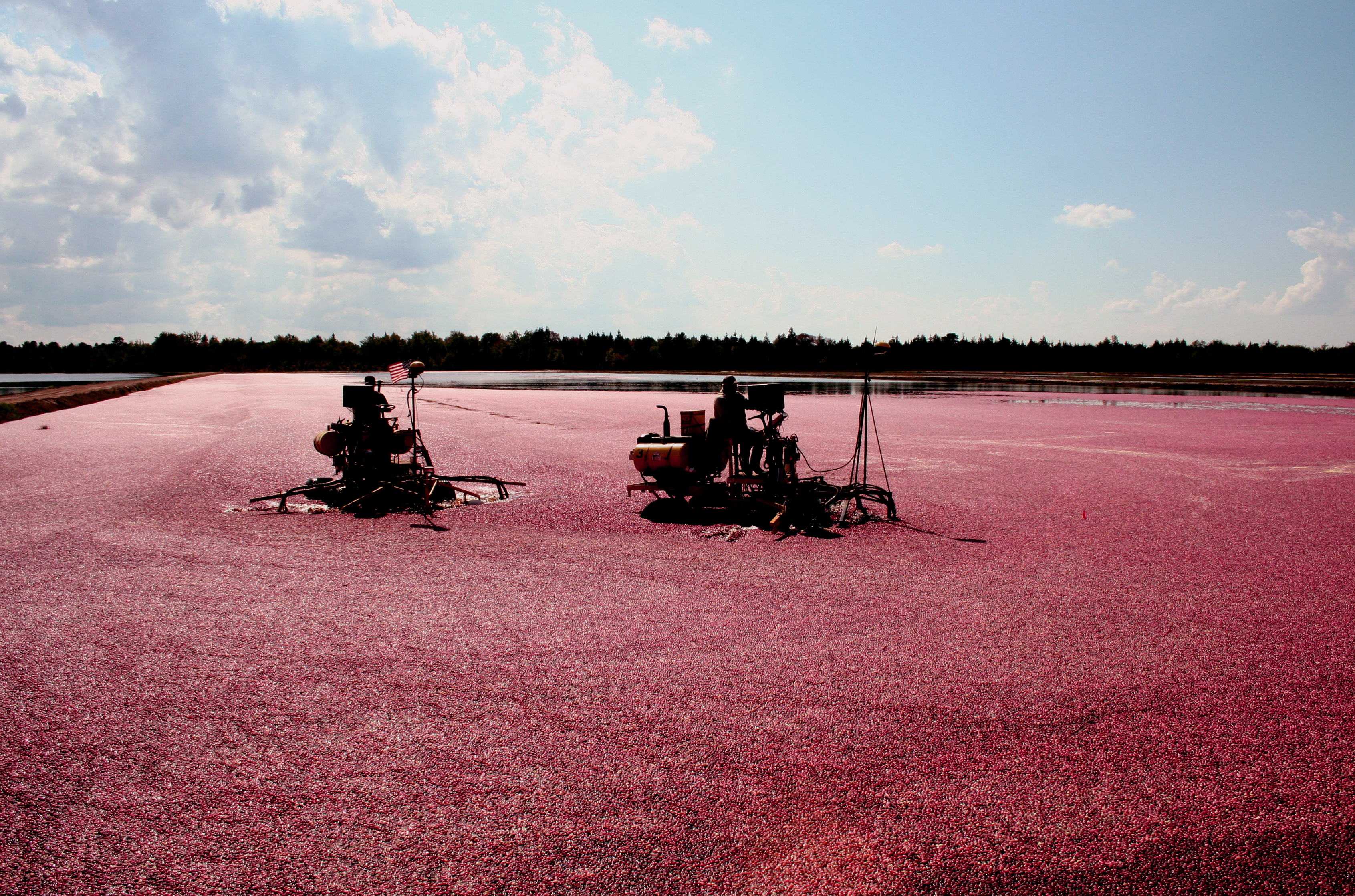 Whitesbog Historic District